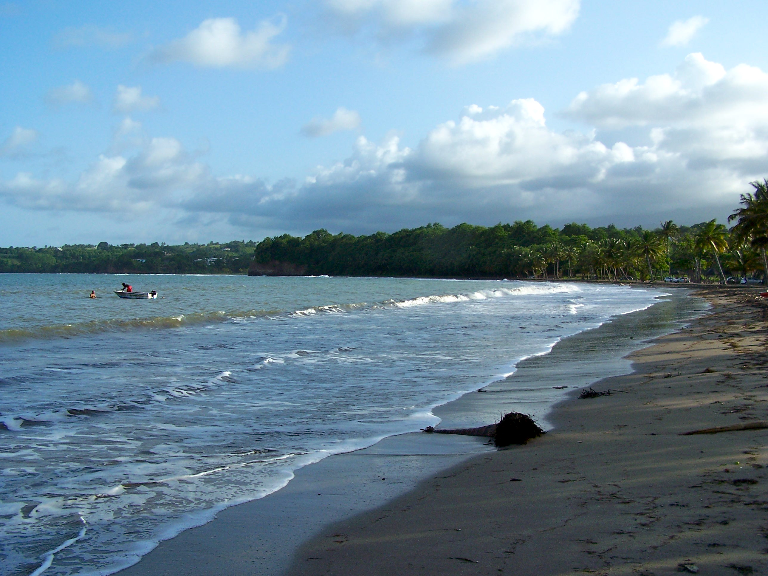 Plage Sainte-Claire à Goyave